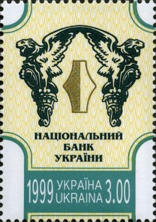 Stamp of Ukraine